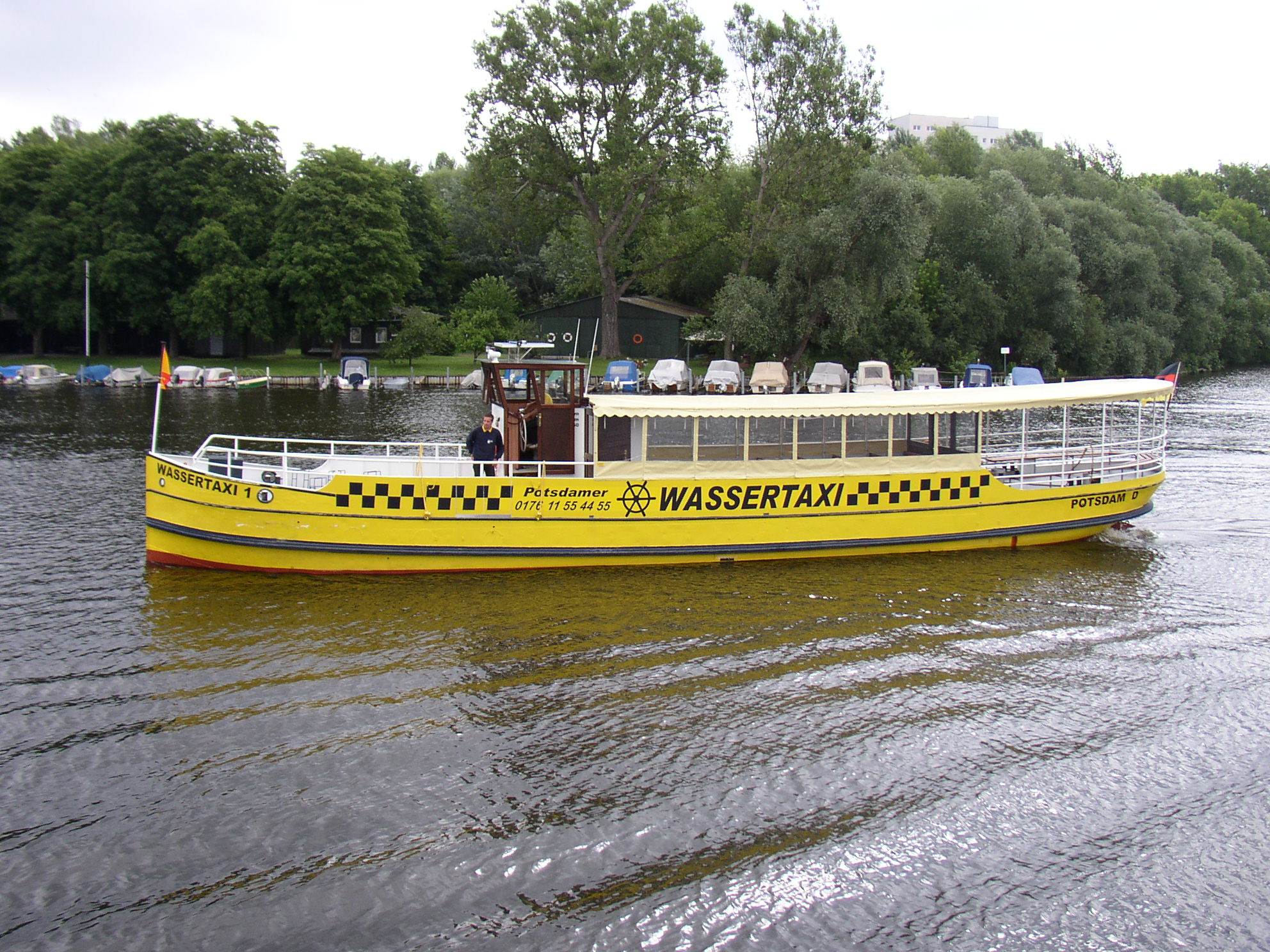 Watertaxi on River Havel in Potsdam/Germany